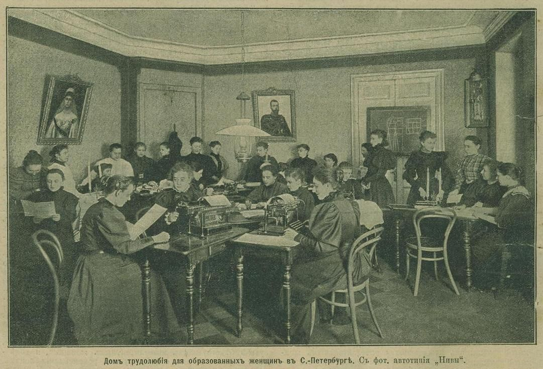 House of Diligence for Educated Women